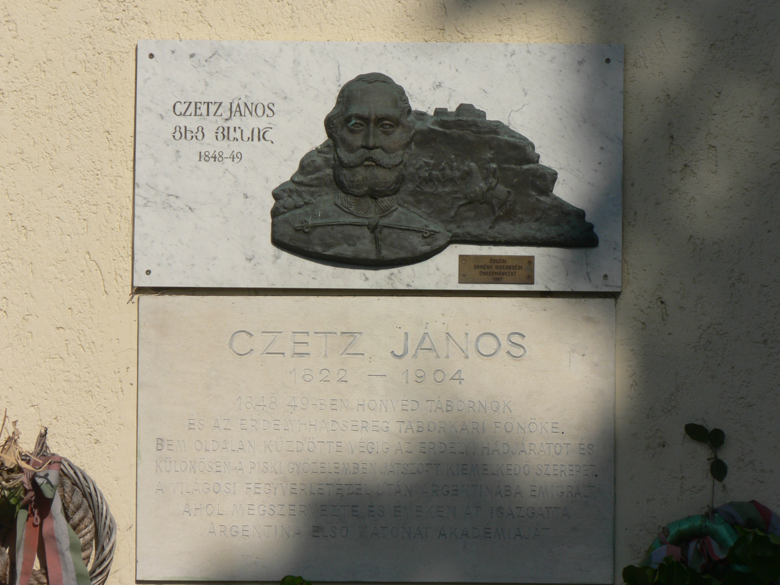 Memorial plaques of János Czetz in Budapest, at the street holding his name in the 3rd district